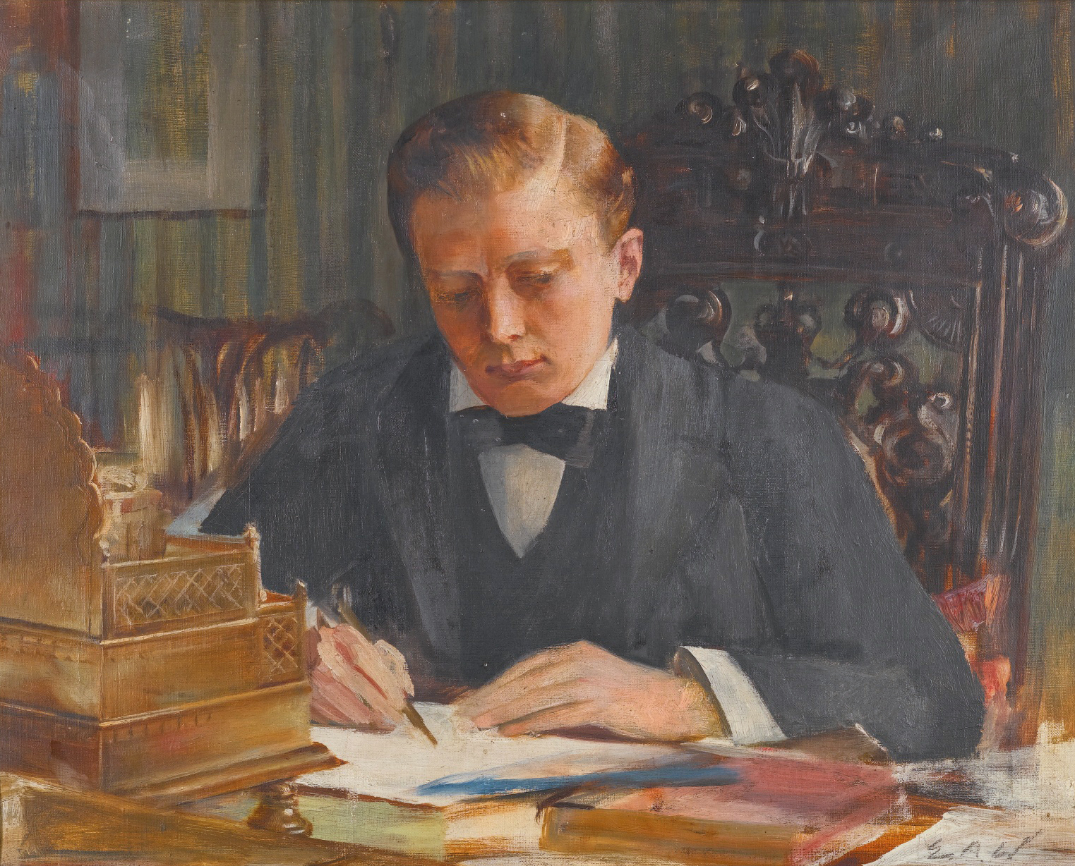 Winston Churchill as a young man oil on canvas 40.5 x 51 cm signed b.r.: E.A.W